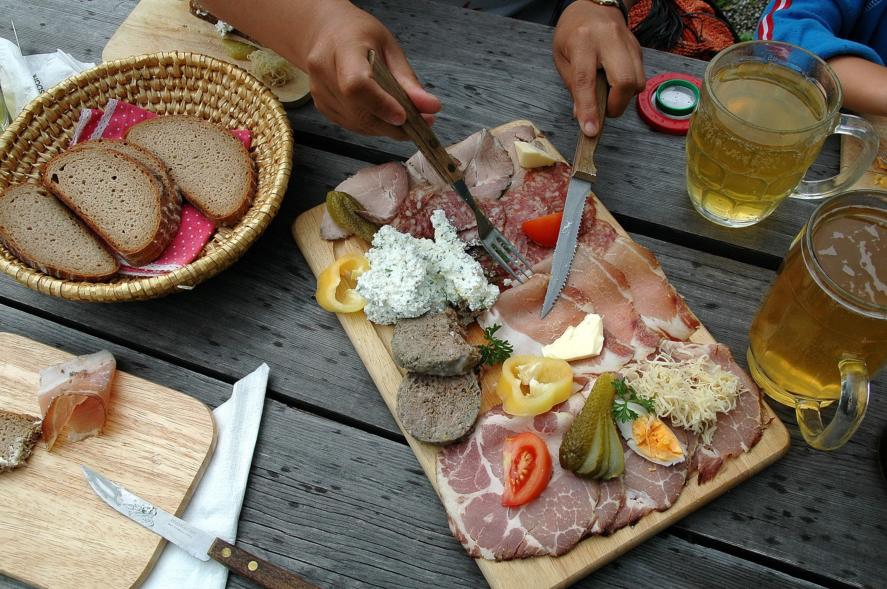 Typical Carinthian "Brettljause" with bread, different kinds of cold meat and "Most" (cider)